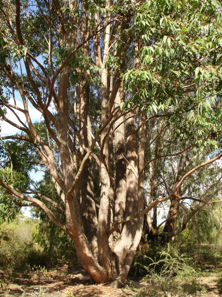 Photographed at Maranoa Gardens, Melbourne, Victoria, Australia HelloMojo 08:01, 6 April 2007 (UTC)